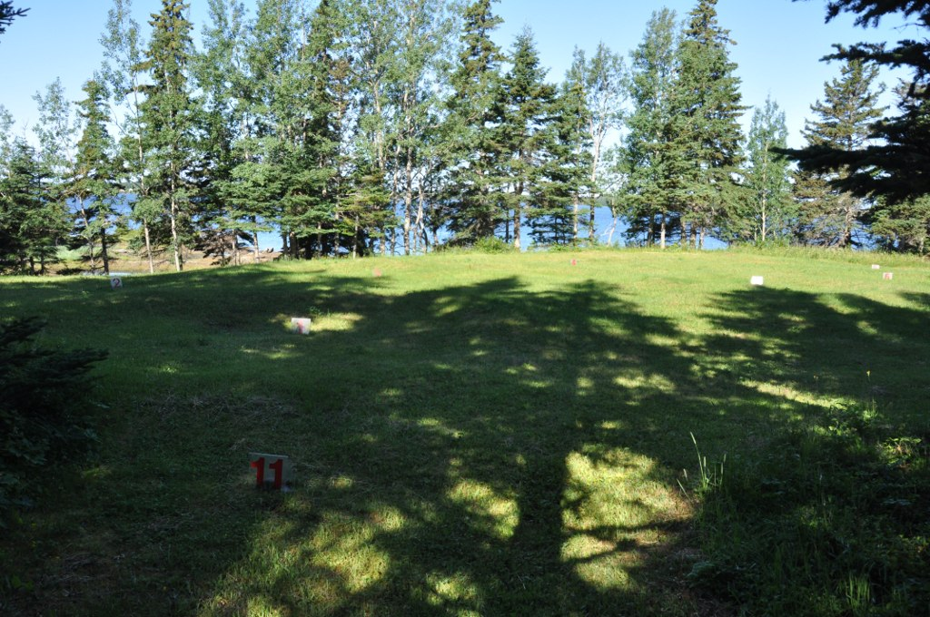 Boyd's Cove National Historic Site of Canada, Boyd's Cove, Newfoundland. The archeological site.